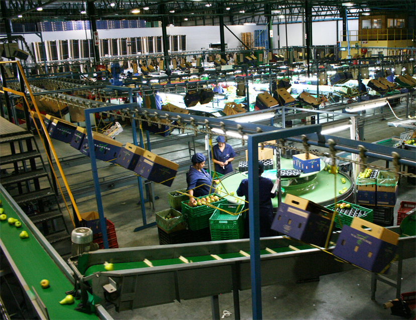 Works packing fruit for export in a Graaff-Fruit packing house in Ceres, South Africa.